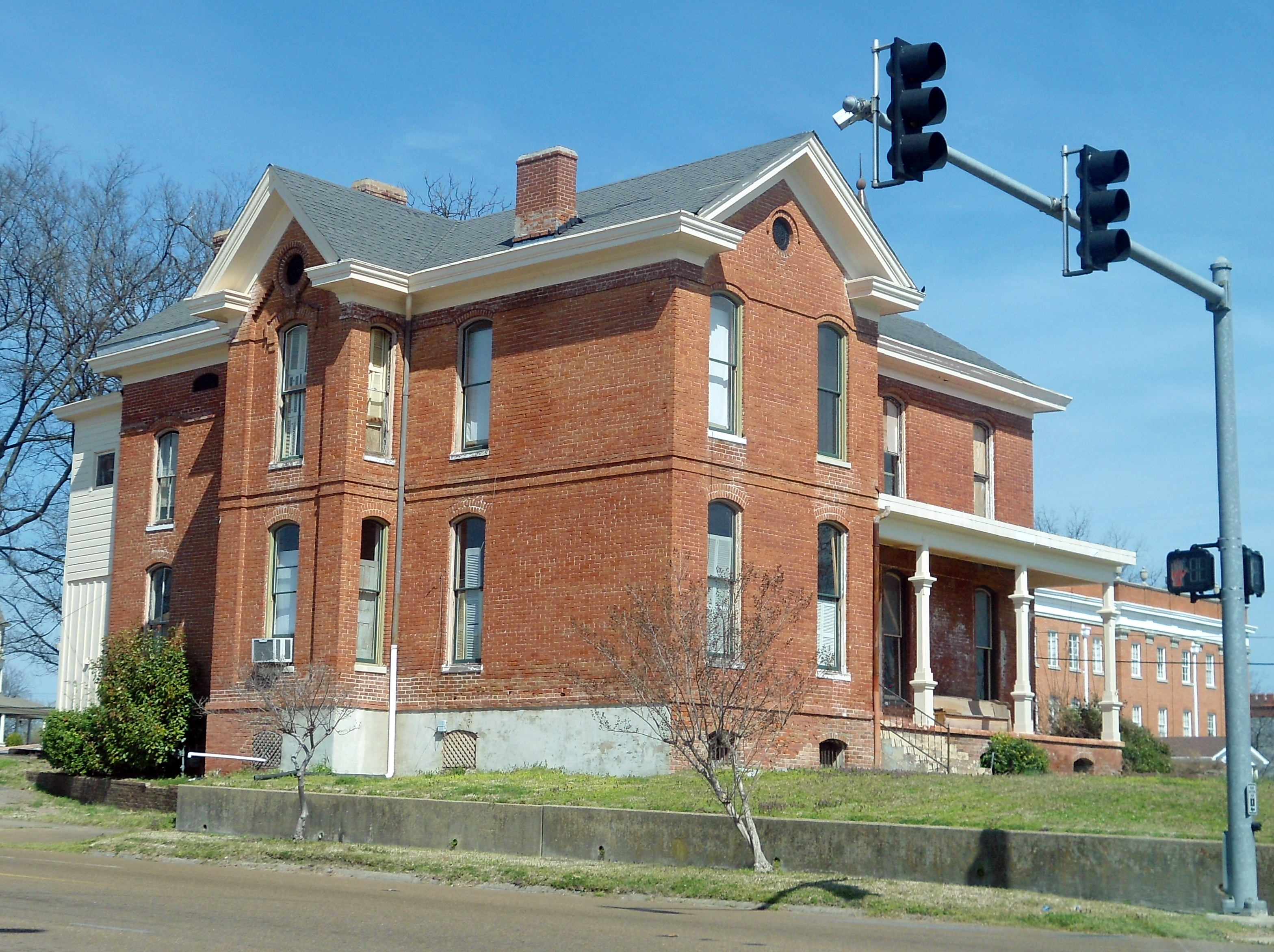 Sydney H. Horner House, listed on the NRHP in Helena-West Helena, AR